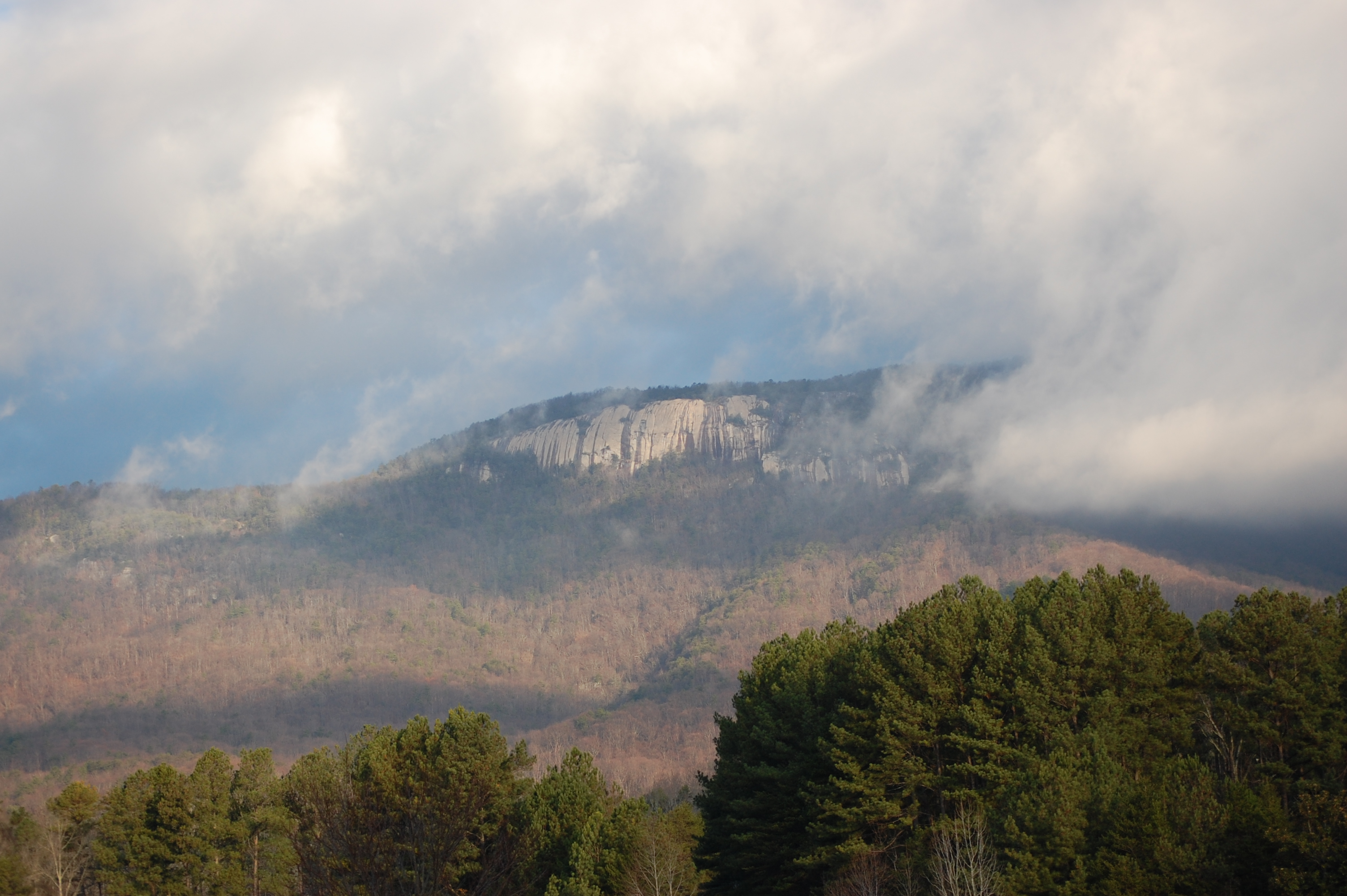 Table Rock Mountain from Lake Oolenoy, within Table Rock State Park, Pickens County, South Carolina.